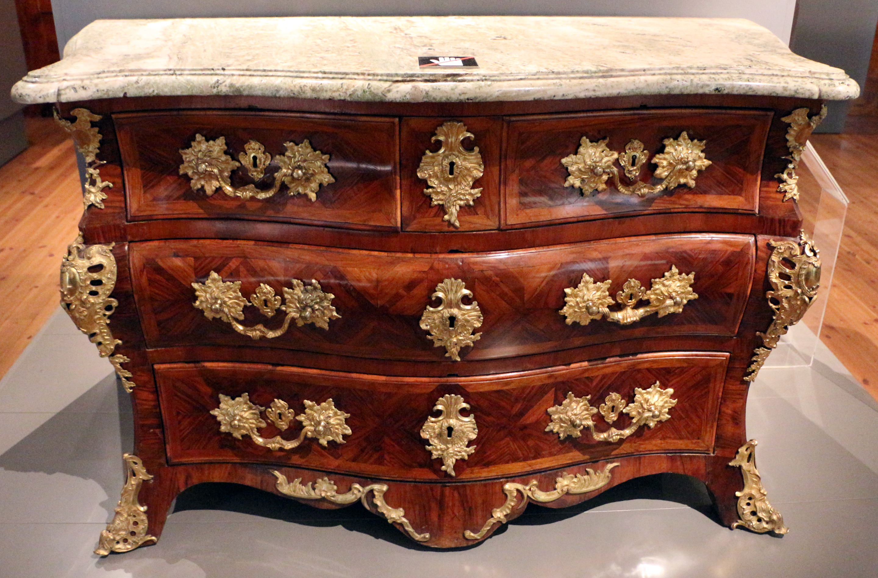 Miscellany in the National Museum of Finland